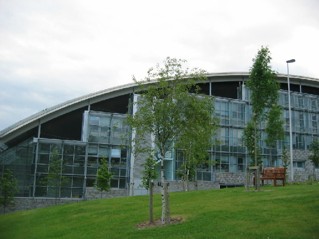 Robert Gordon University, Aberdeen, Faculty of Health & Social Care. Part of the Garthdee campus of Robert Gordon University. This is one of the newest buildings the Faculty of Health & Social Care along with a Sports Centre, Health Centre and nursery that the university have built on Garthdee Road. The Health Centre houses facilities for students and local doctor's practices and members of the public can gain membership of the Sports Centre.